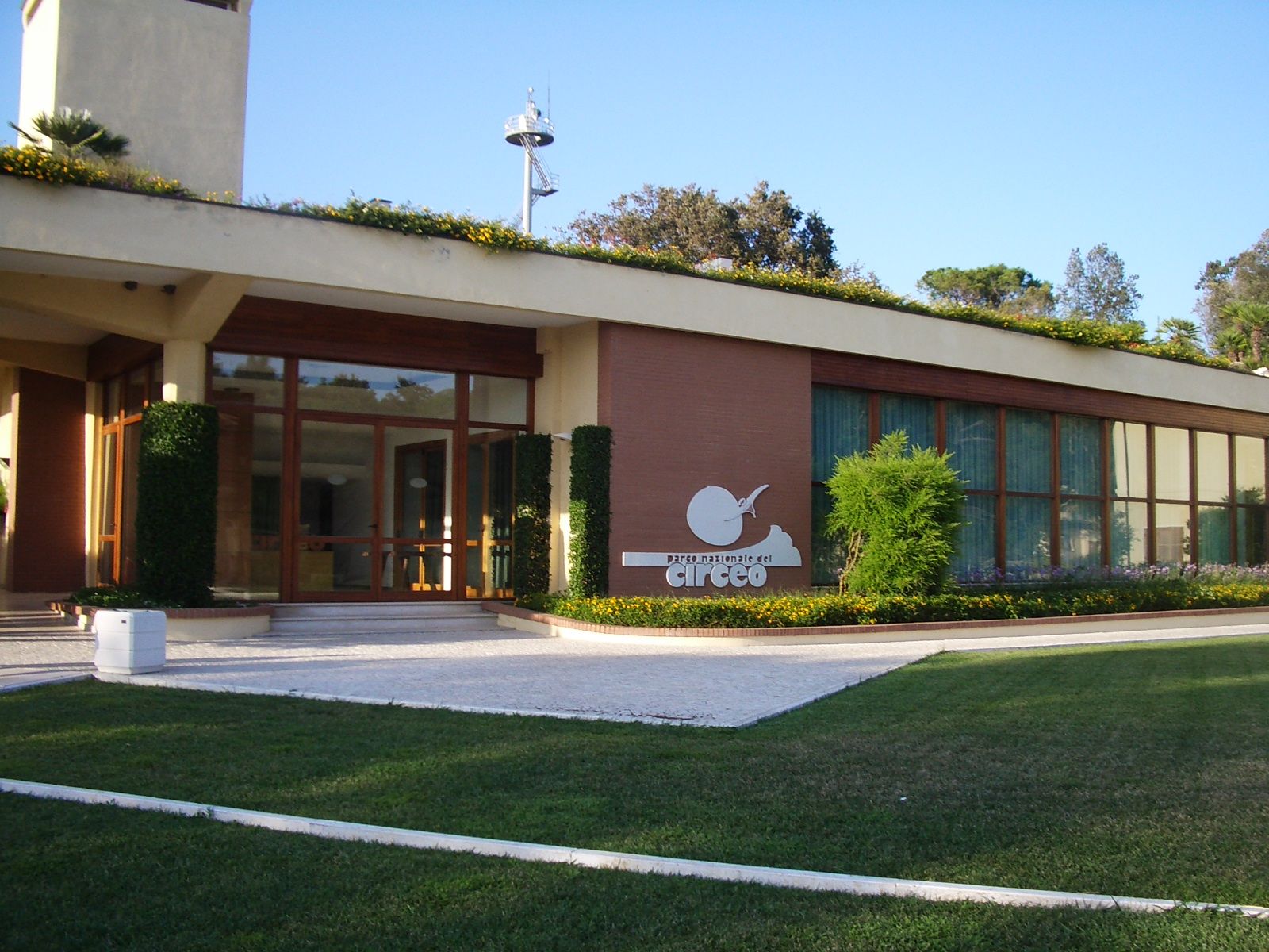 Centro visitatori del Parco Nazionale del Circeo